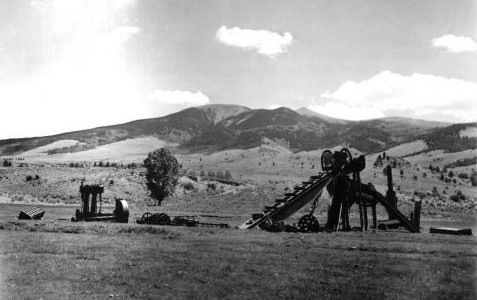 1939—All that remains of the Elizabethtown mining boom, showing placer diggings in background. Photos by W. H. Shaffer FS #383696